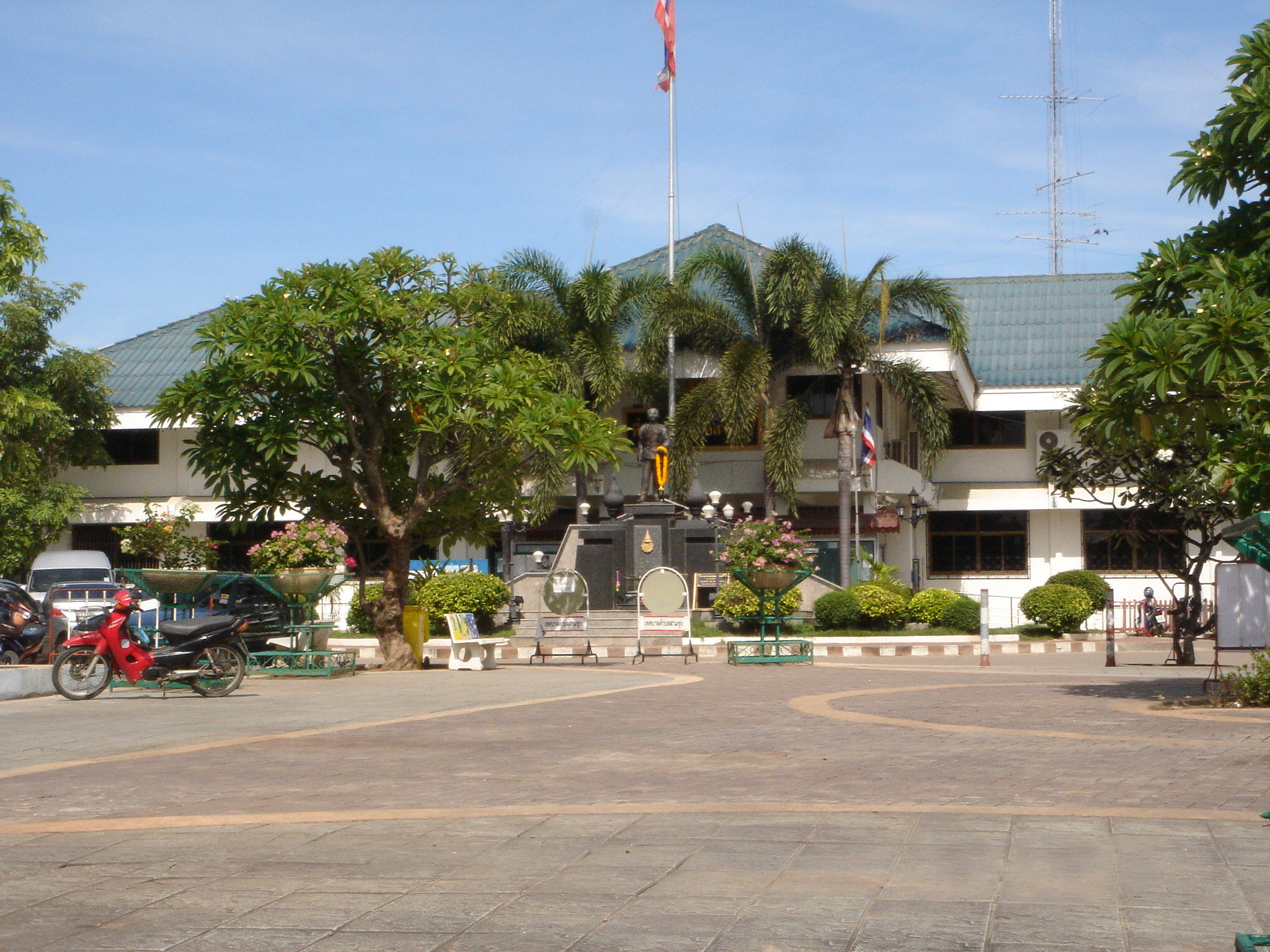 District office, Sam Chuk District, Suphanburi, Thailand